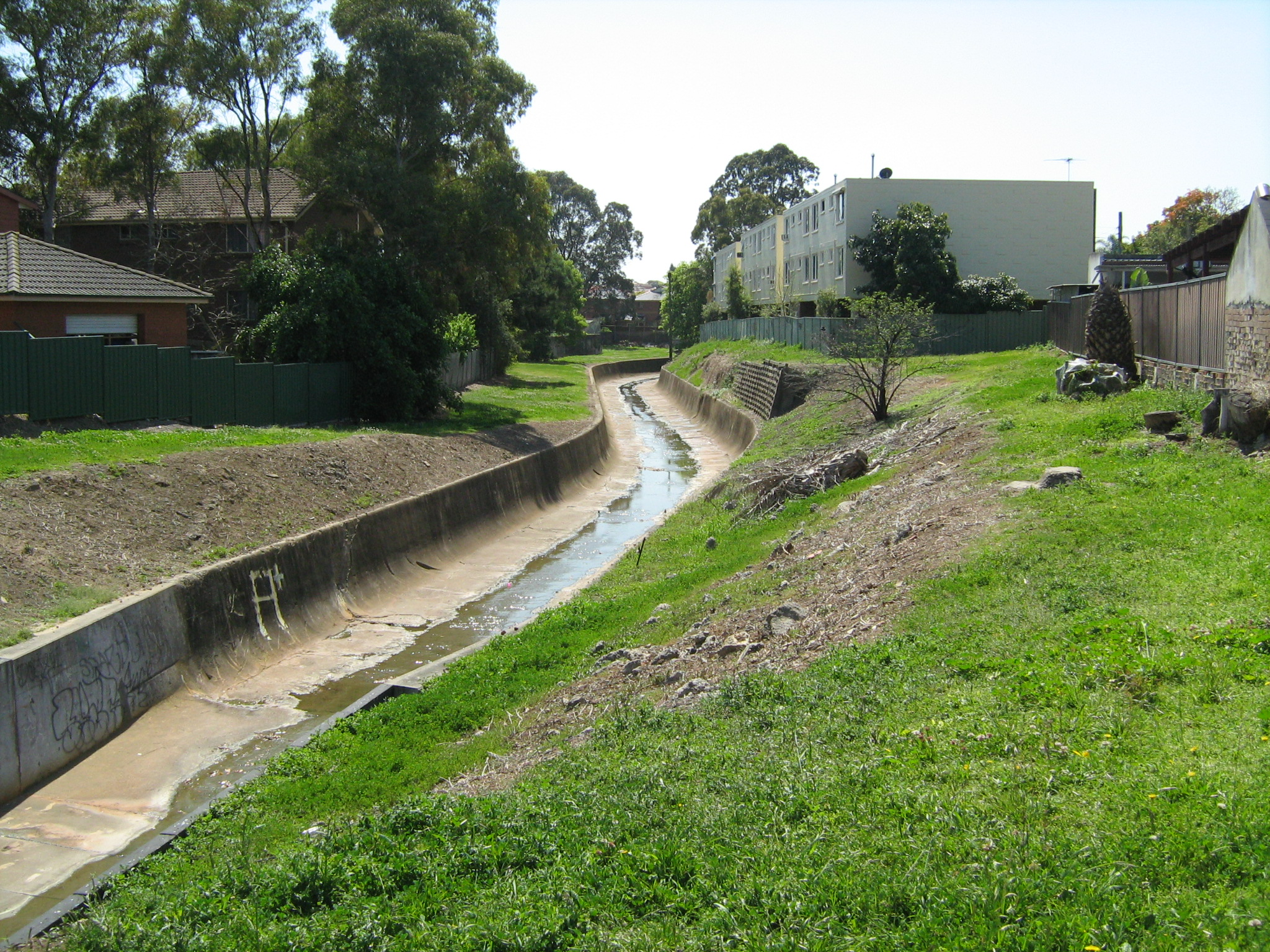 Iron Cove Creek looking downstream from John Street, Croydon. Taken: 25 September 2007